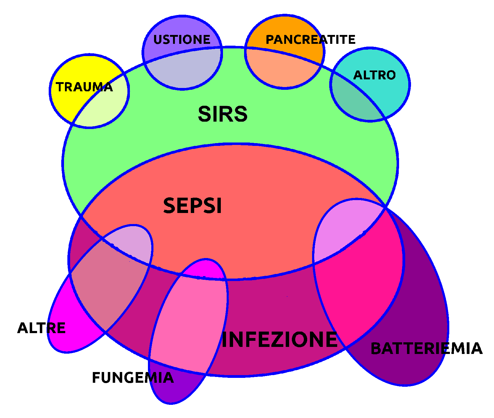 From infection and SIRS, to sepsis